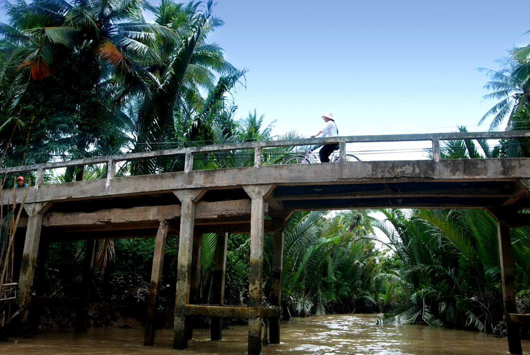 A lone school girl cycling past an old bridge at the Mekong Delta